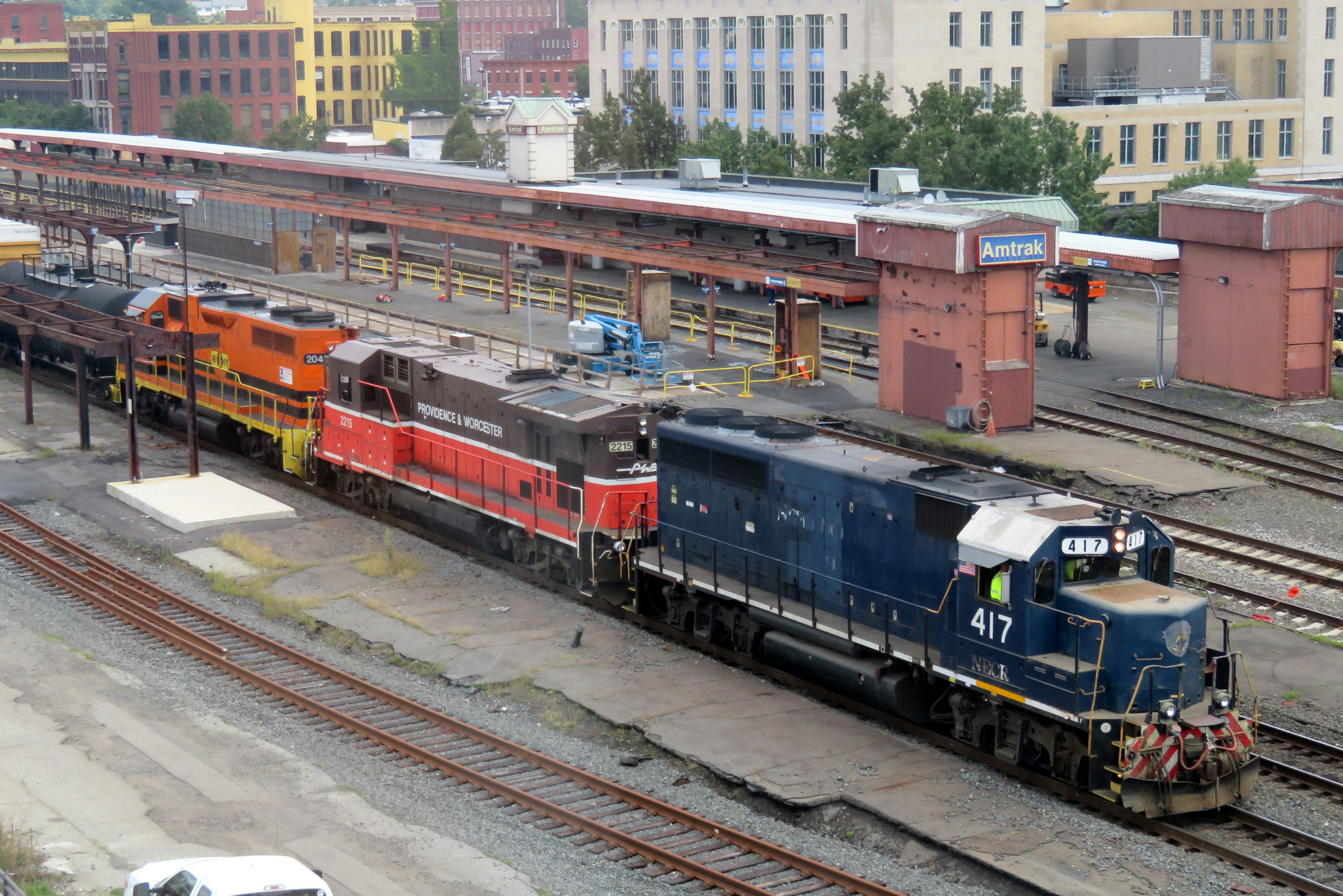 A Connecticut Southern Railroad freight train passing through Springfield Union Station in August 2018. The train - which has locomotives from fellow G&W subsidiary railroads P&W and NECR - was backing out of West Springfield Yard before heading south on the Springfield Line.